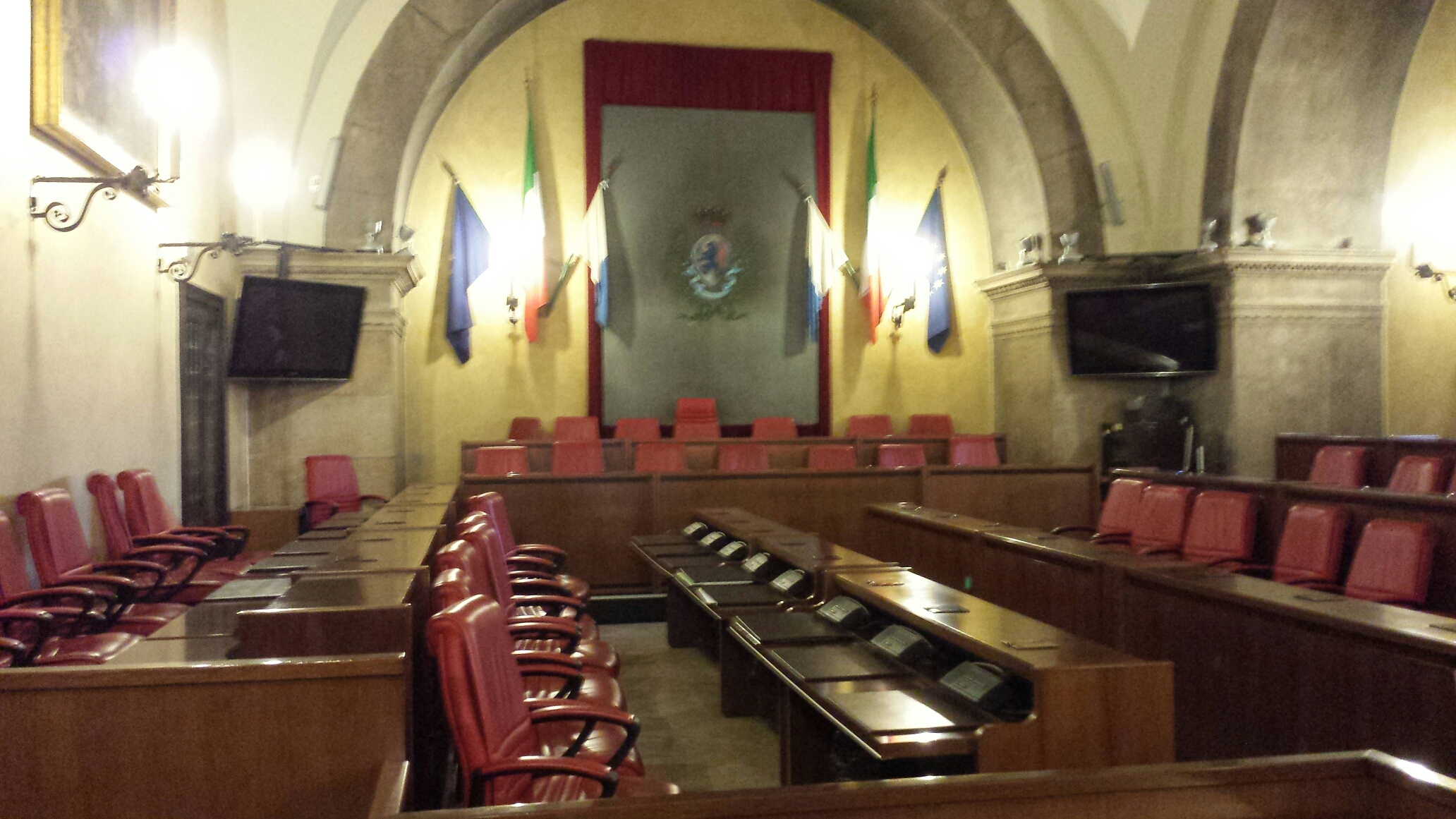 Brescia City Council meeting room